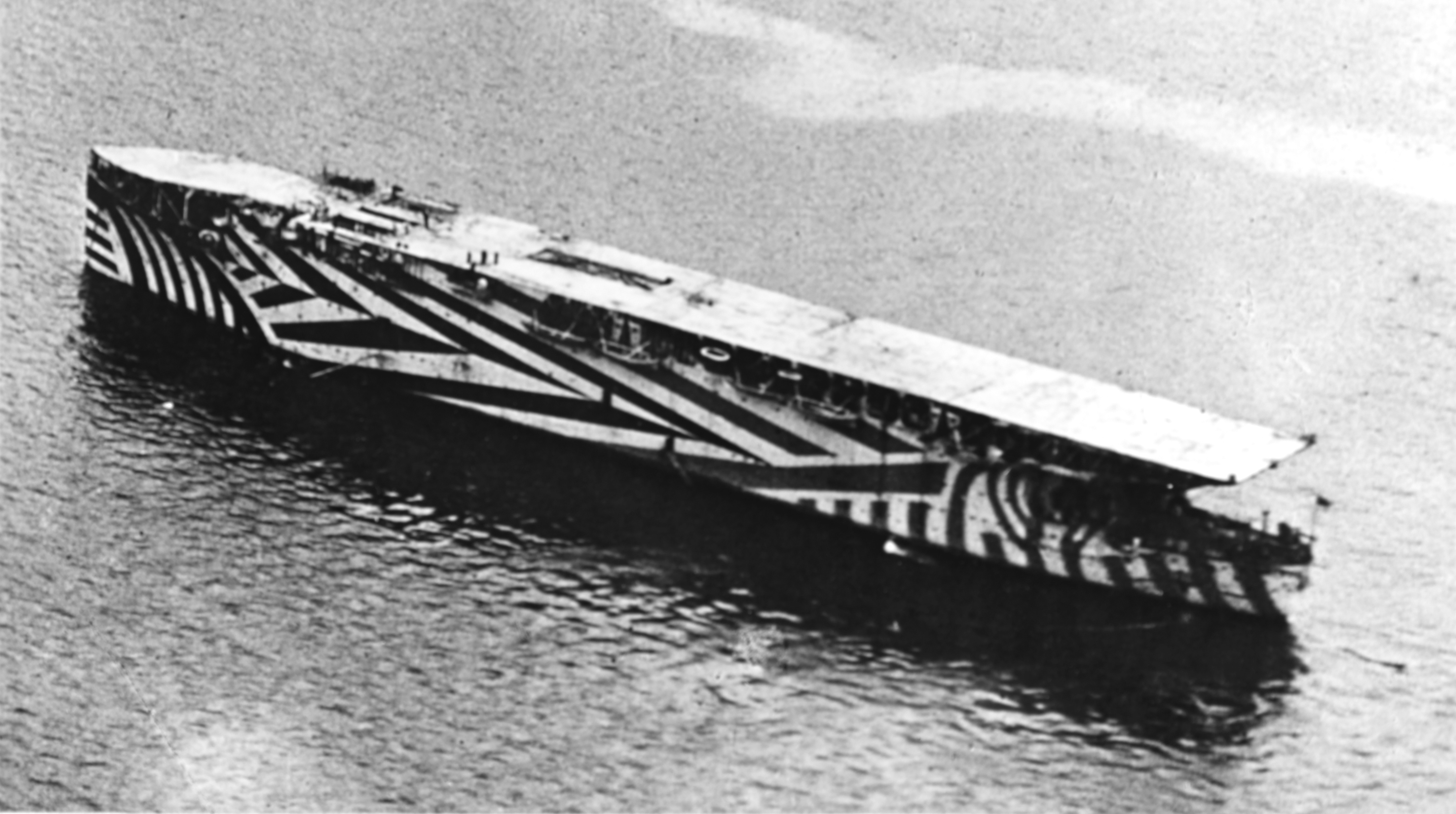 HMS Argus (I49) in harbour in 1918, painted in dazzle camouflage, with a Renown class battlecruiser in the distance